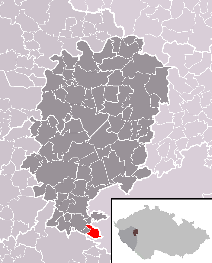 Location of Trokavec municipality within Rokycany District and within identical administrative area of Rokycany as a Municipality with Extended Competence.